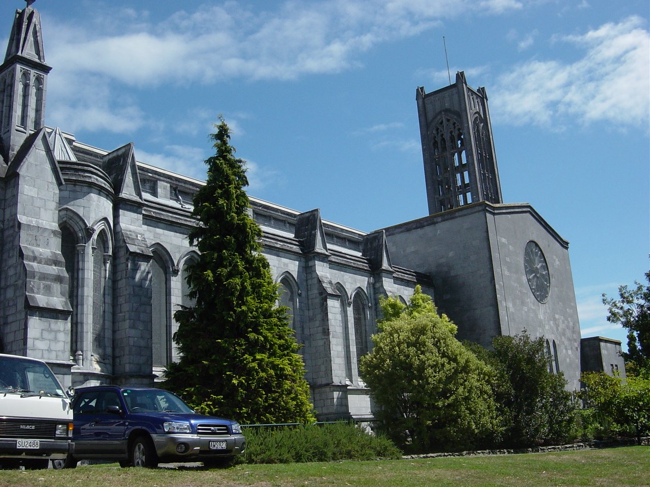 Christ Church Cathedral, Nelson